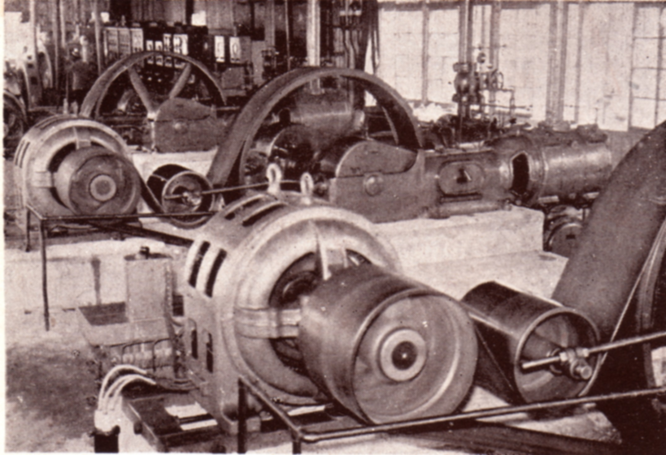 Air compressor for construction of Kammon railway tunnel